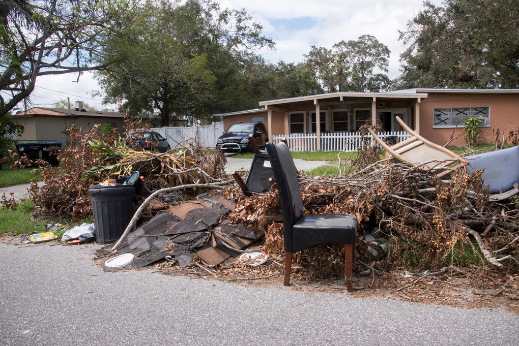 Orlando, Florida, October 4, 2017: Debris piles line the streets of some of Orlando, Florida's neighborhoods after Hurricane Irma swept thru the area. Patsy Lynch/FEMA